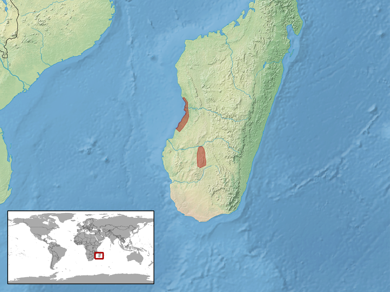 geographic distribution of Phelsuma hielscheri (Native: Madagascar)